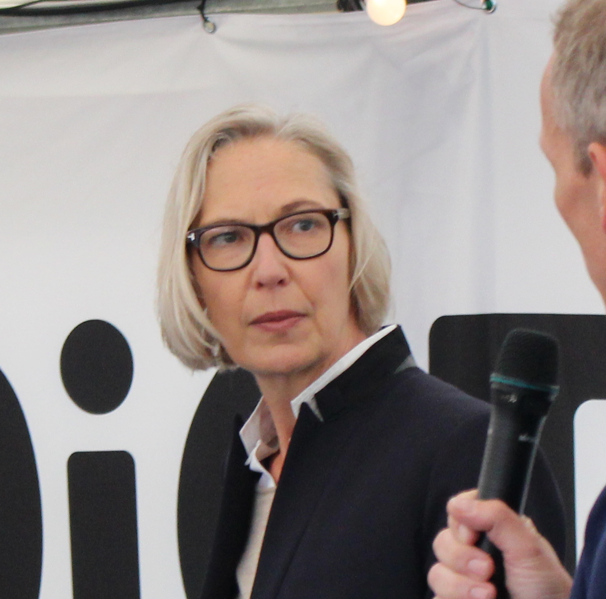 Maria Rørbye Rønn, director general for DR, at Folkemødet 2016.